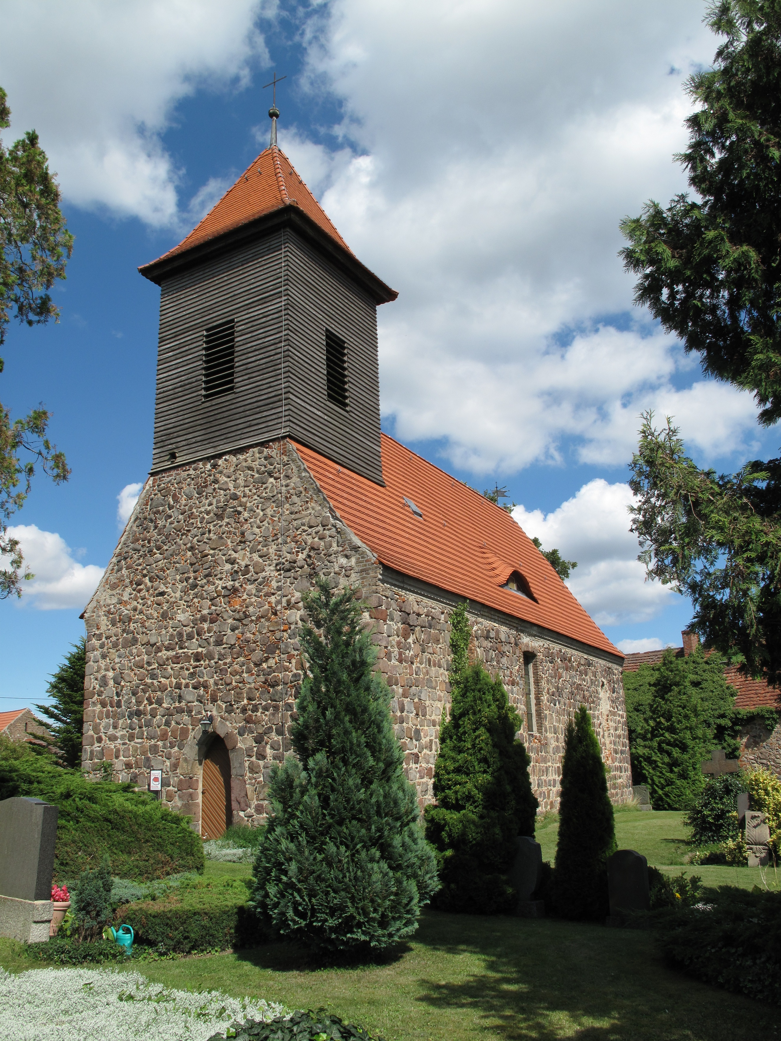 The Dorfkirche Hasenholz is a listed village and Fieldstone church in Hasenholz, a village of the town Buckow in the District Märkisch-Oderland, Brandenburg, Germany. The church was built in the 13th-century.